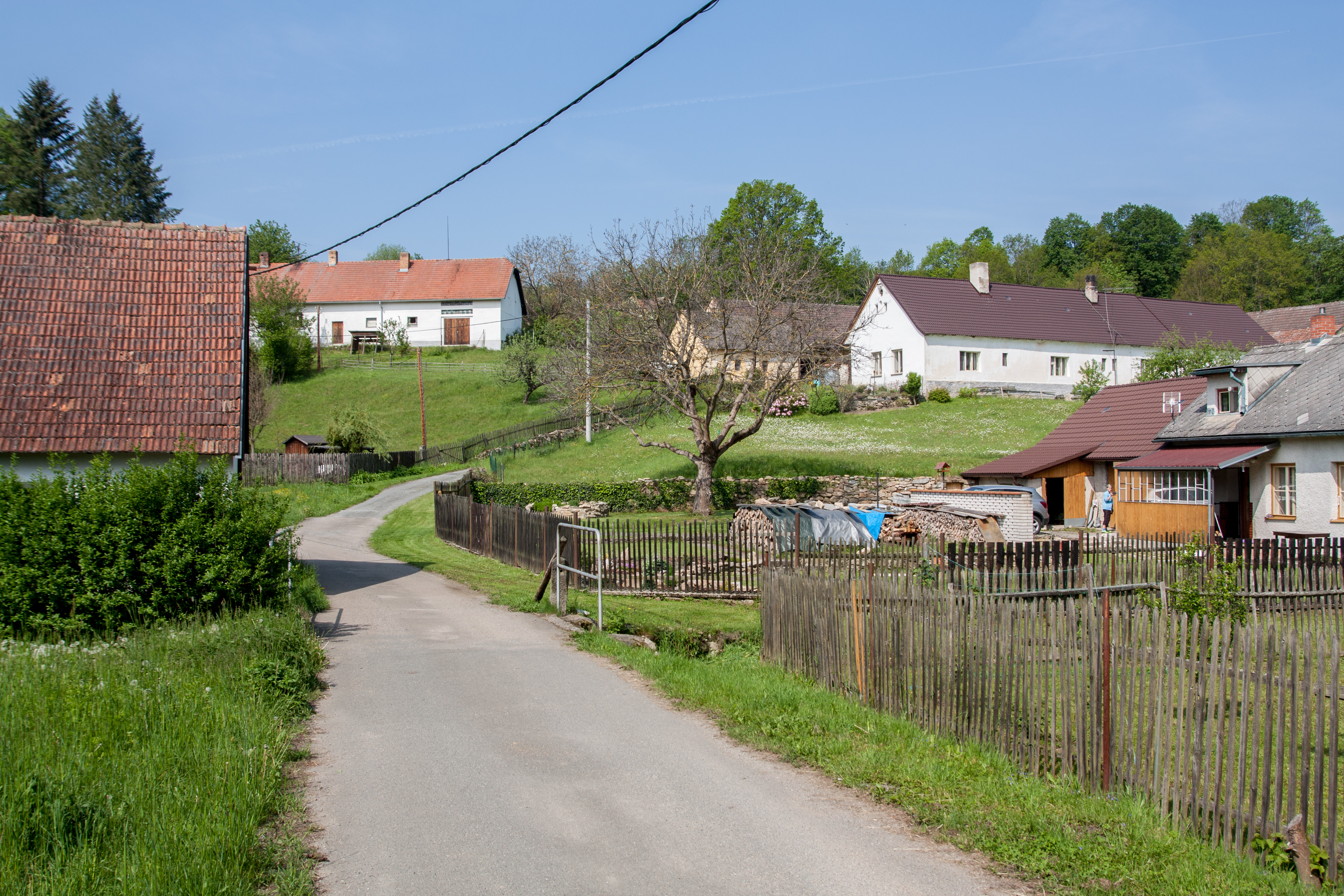 View at village Křenovice, Benešov District, Central Bohemian Region, Czechia